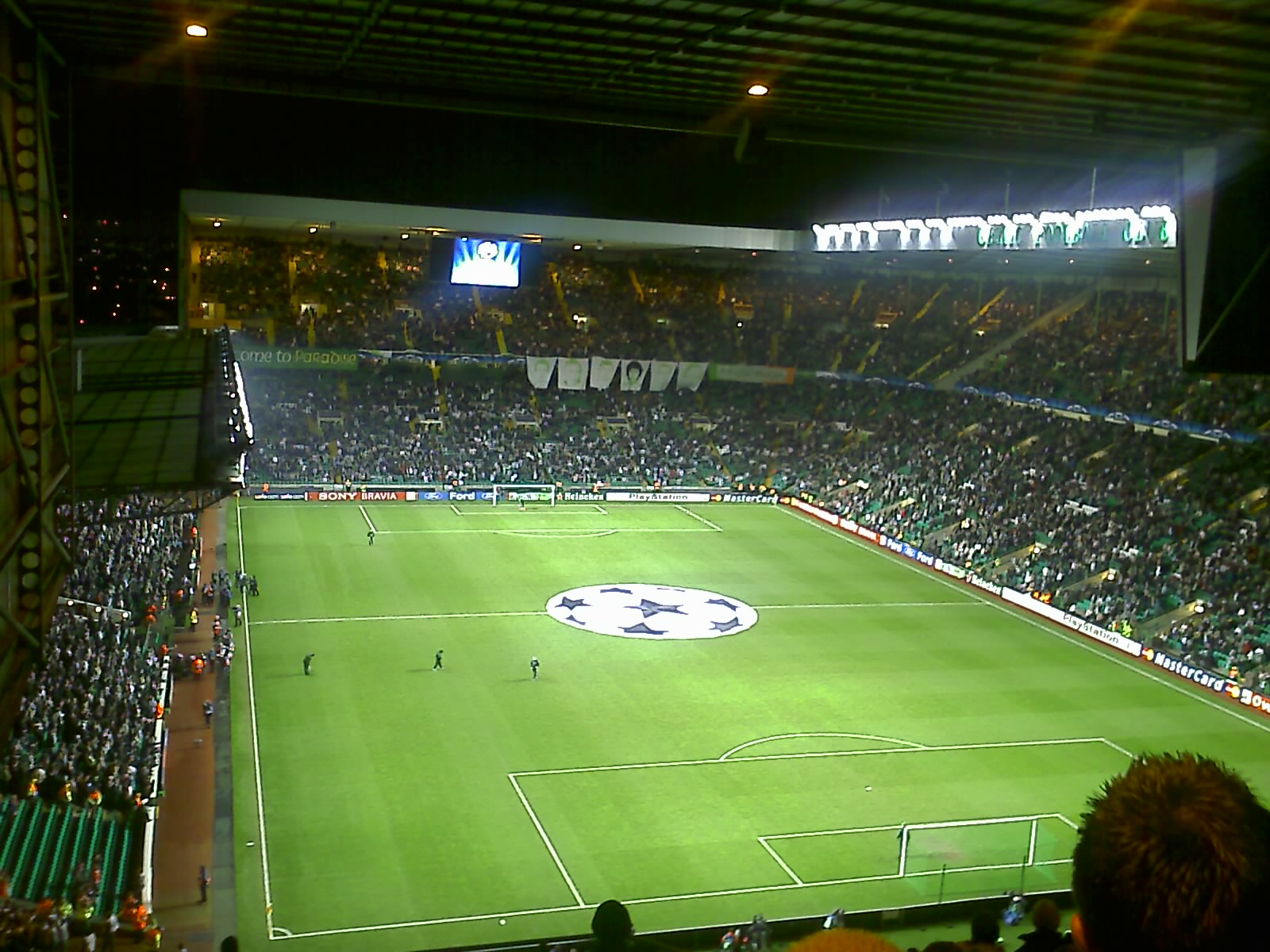 Champions League 2007-08 match between Celtic FC and SL Benfica. Celtic won 1-0.